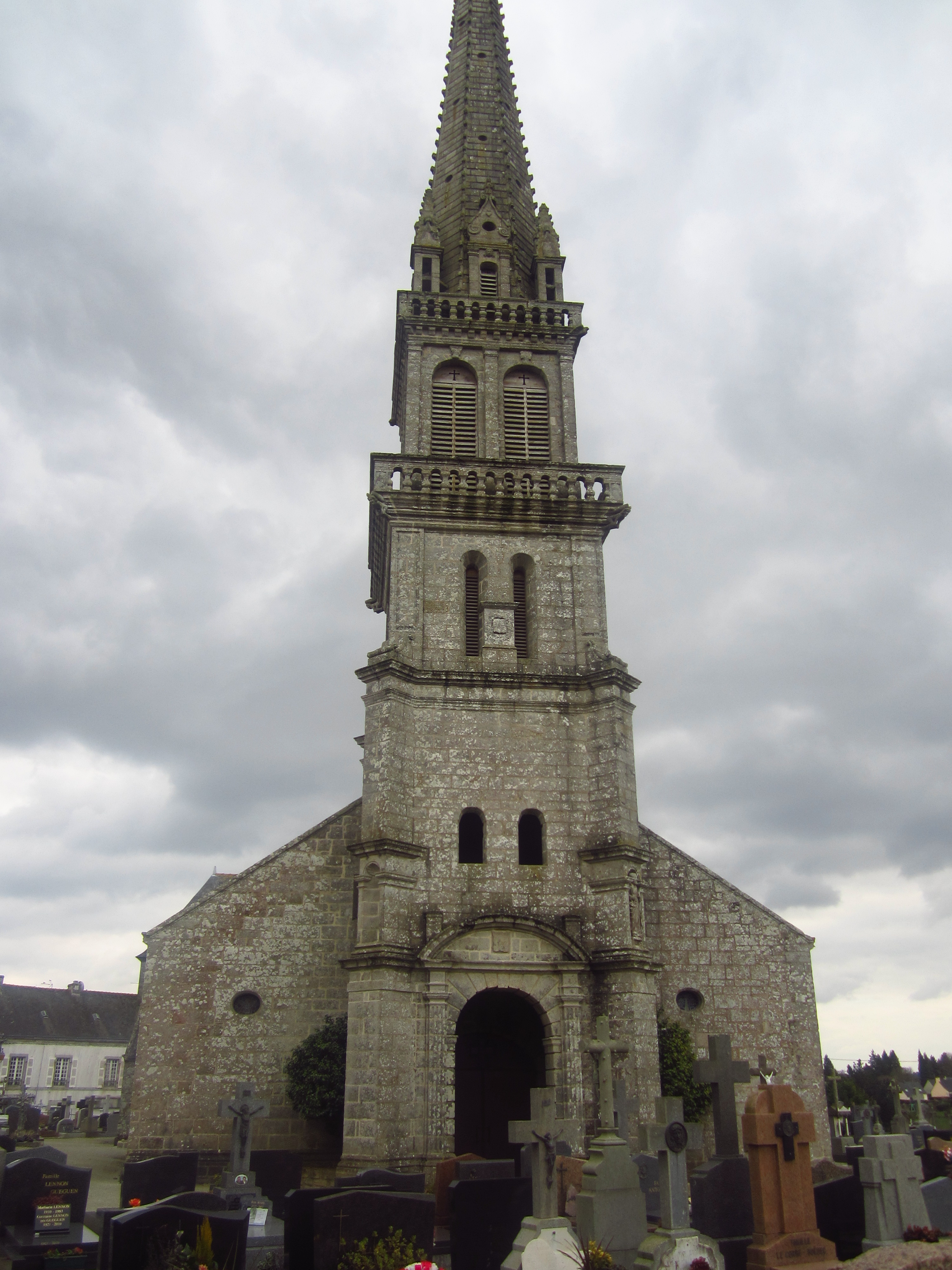 Church of Elliant, Finistère